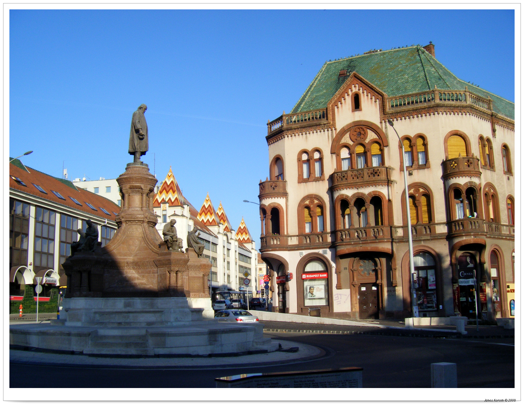 Statue of Zsolnay, Pécs, Hungary